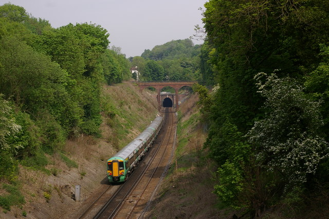 Approaching Merstham Tunnel. A Southern Class 377 Electrostar on a Bognor Regis/Southampton Central - Victoria working, approaching Merstham Tunnel on the original South Eastern Railway north of Redhill. This section now forms the slow lines on the Southern main line, with the fast lines occupying the nearby "Quarry Line" (see 804338).